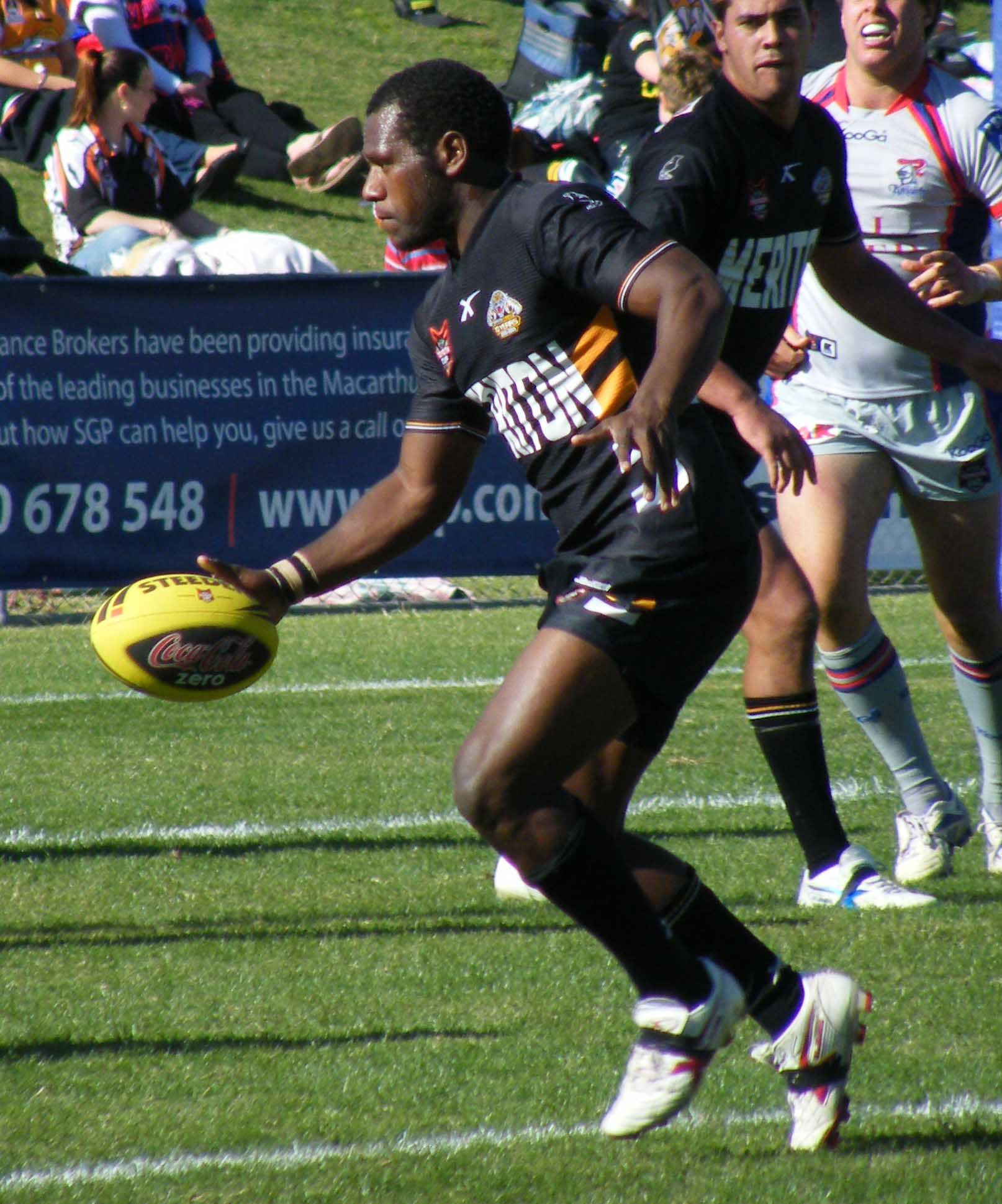 Robert Lui of the Wests Tigers Under 20's